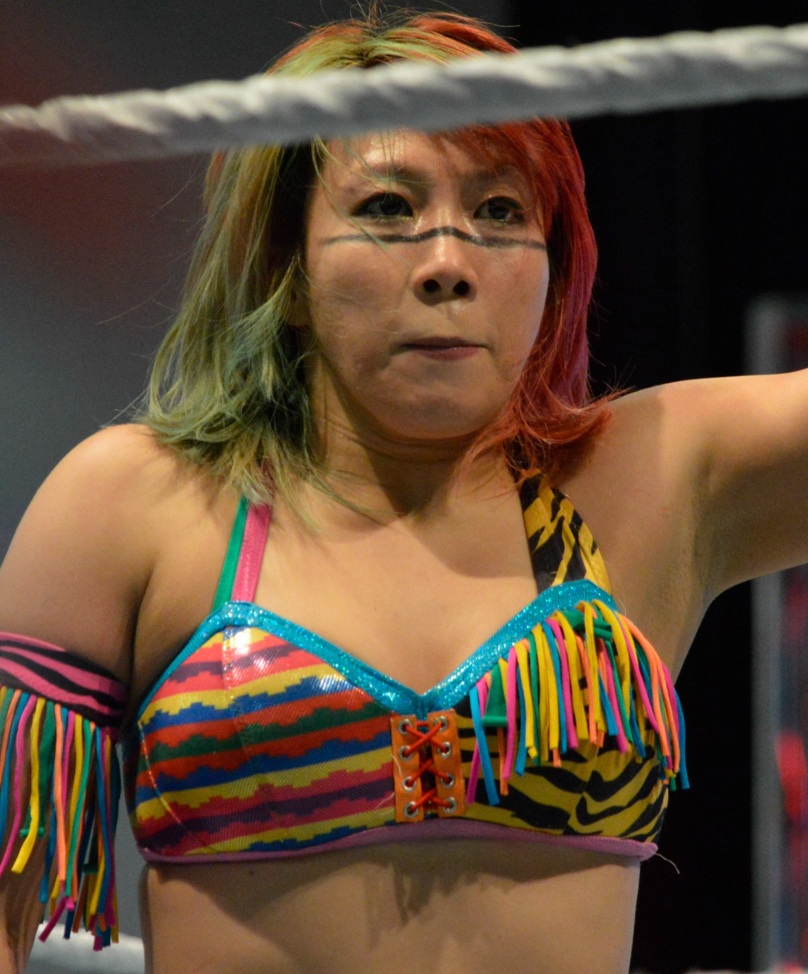 WWE's Asuka during at the Arnold classic event in March 2016.